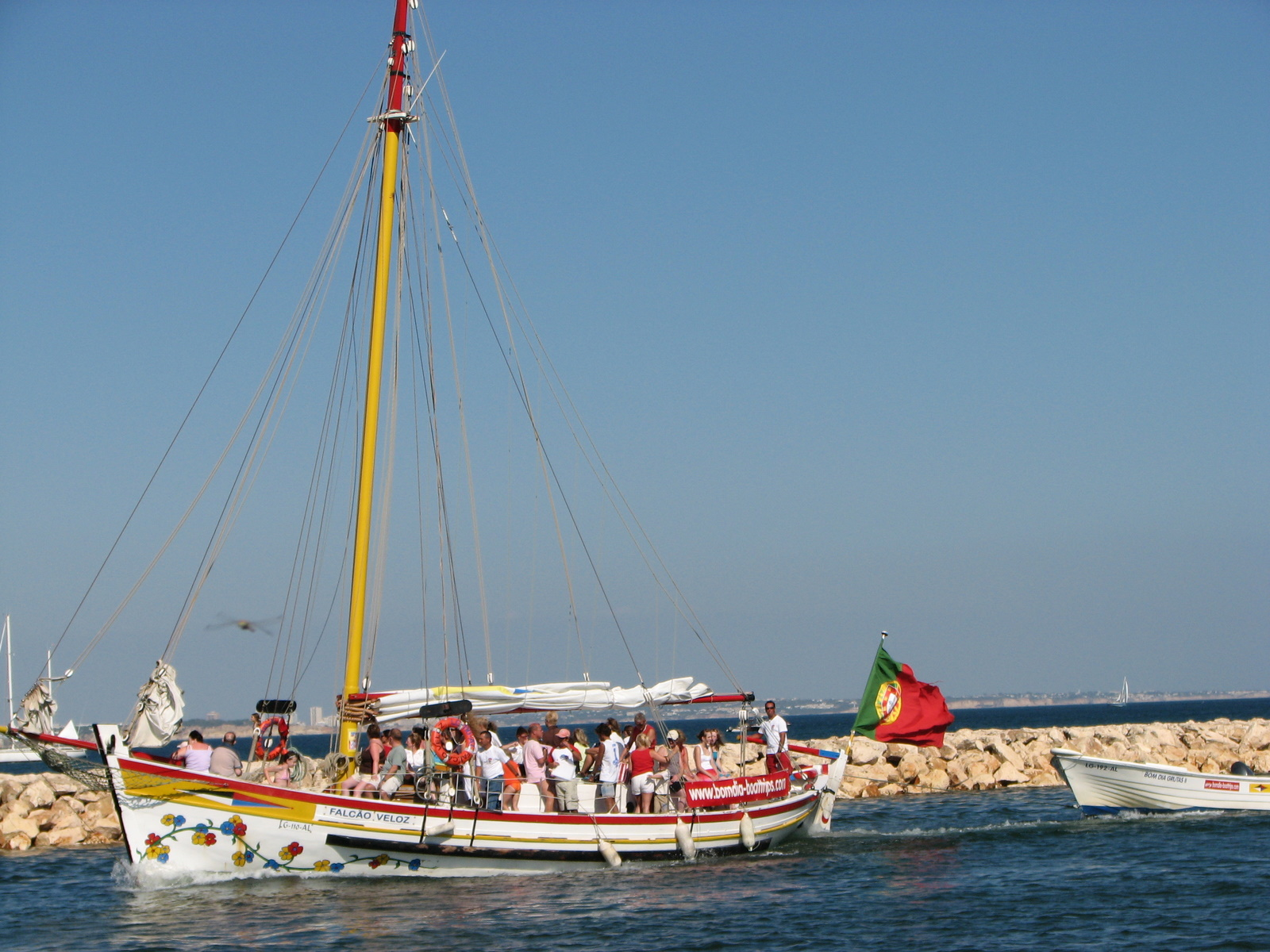 Boat trip entering the harbour on the River Bensafrim in the town of Lagos, Algarve, Portugal.